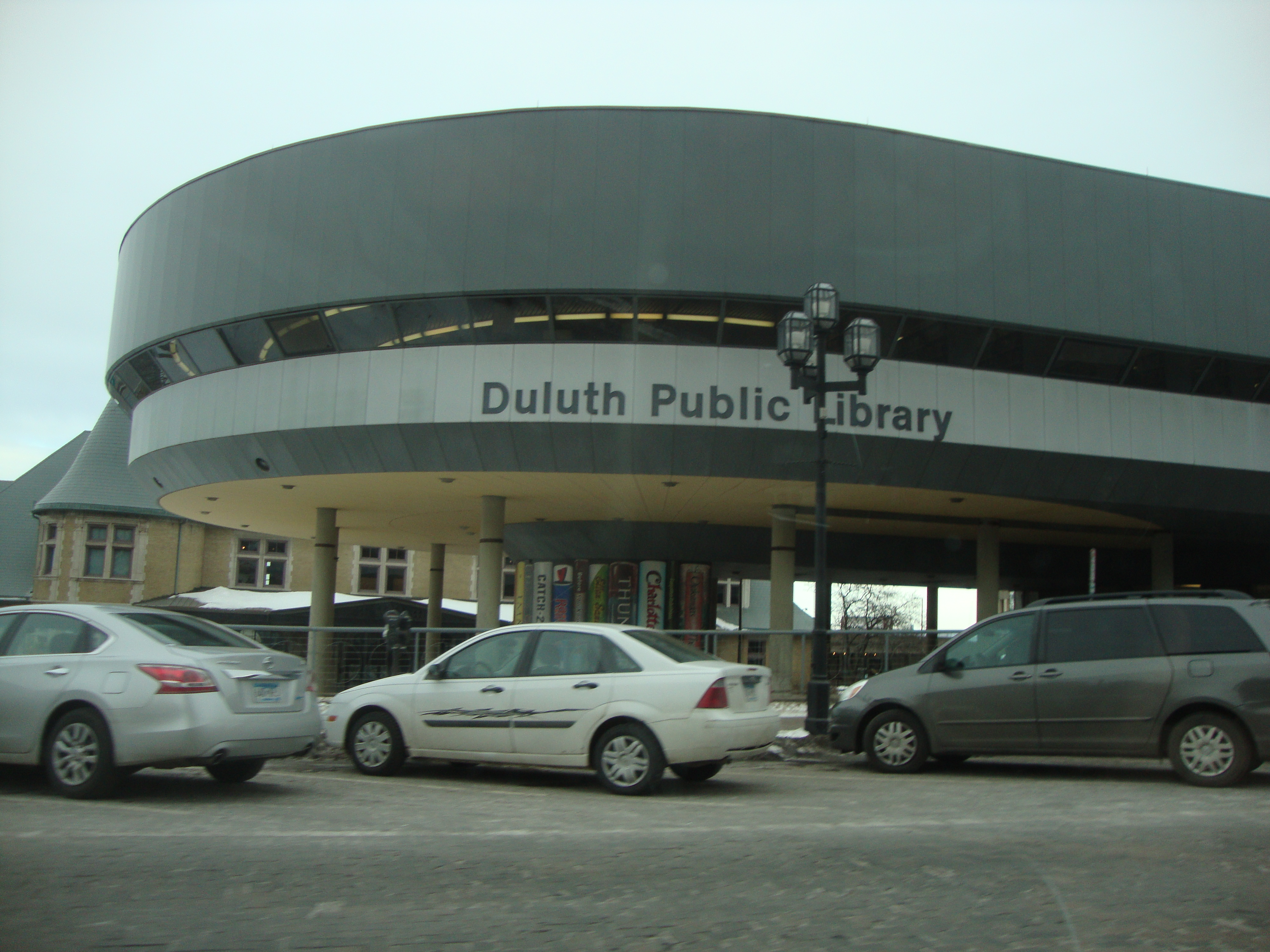 Duluth Public Library on Superior Street, March 2, 2013